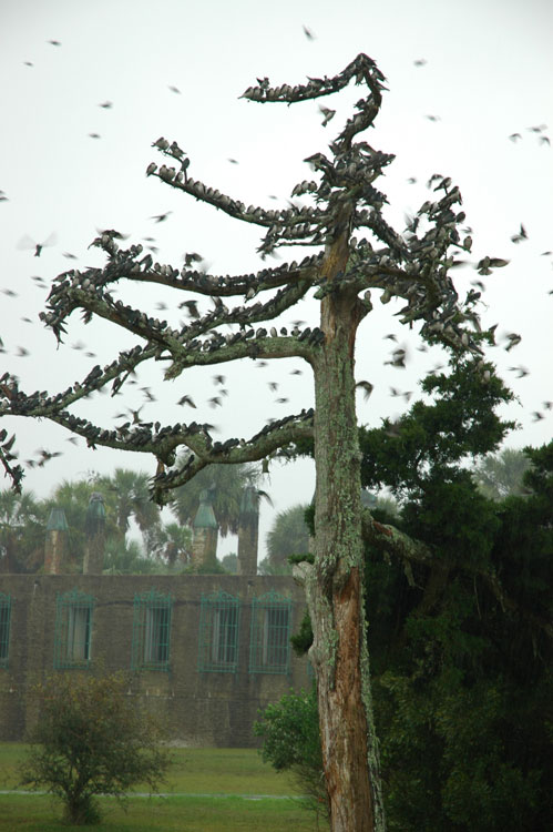 A huge Tree Swallow (Tachycineta bicolor) flock, preparing for fall migration takes refuge from the rain on a snag in front of Atalaya. Located at Huntington Beach State Park of South Carolina.